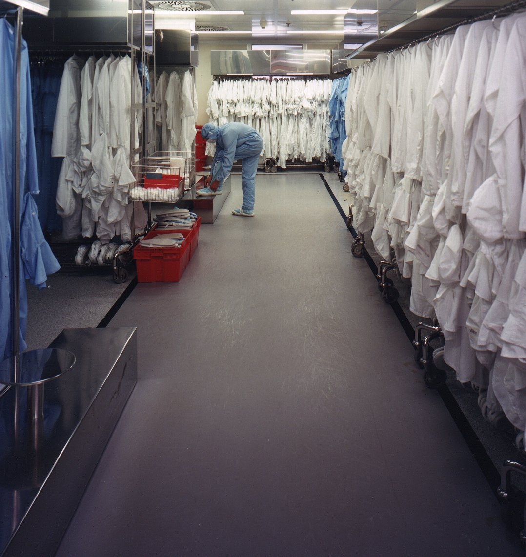 Gowning room with contamination control procedures